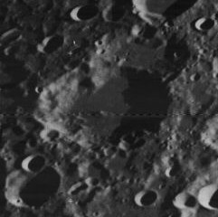 Oblique view of McLaughlin crater, on the moon.